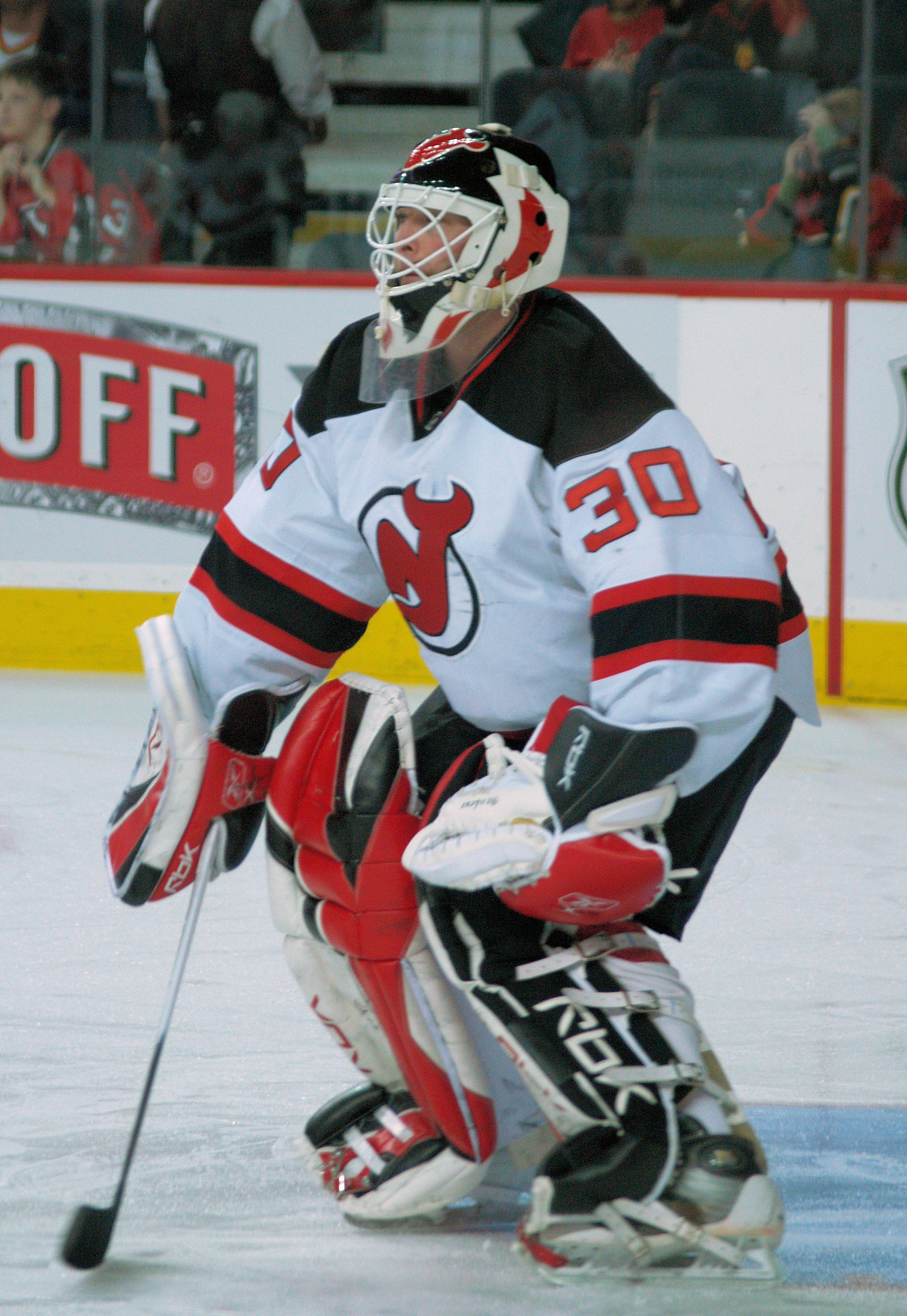 Martin Brodeur in the pre-game warmup in Calgary